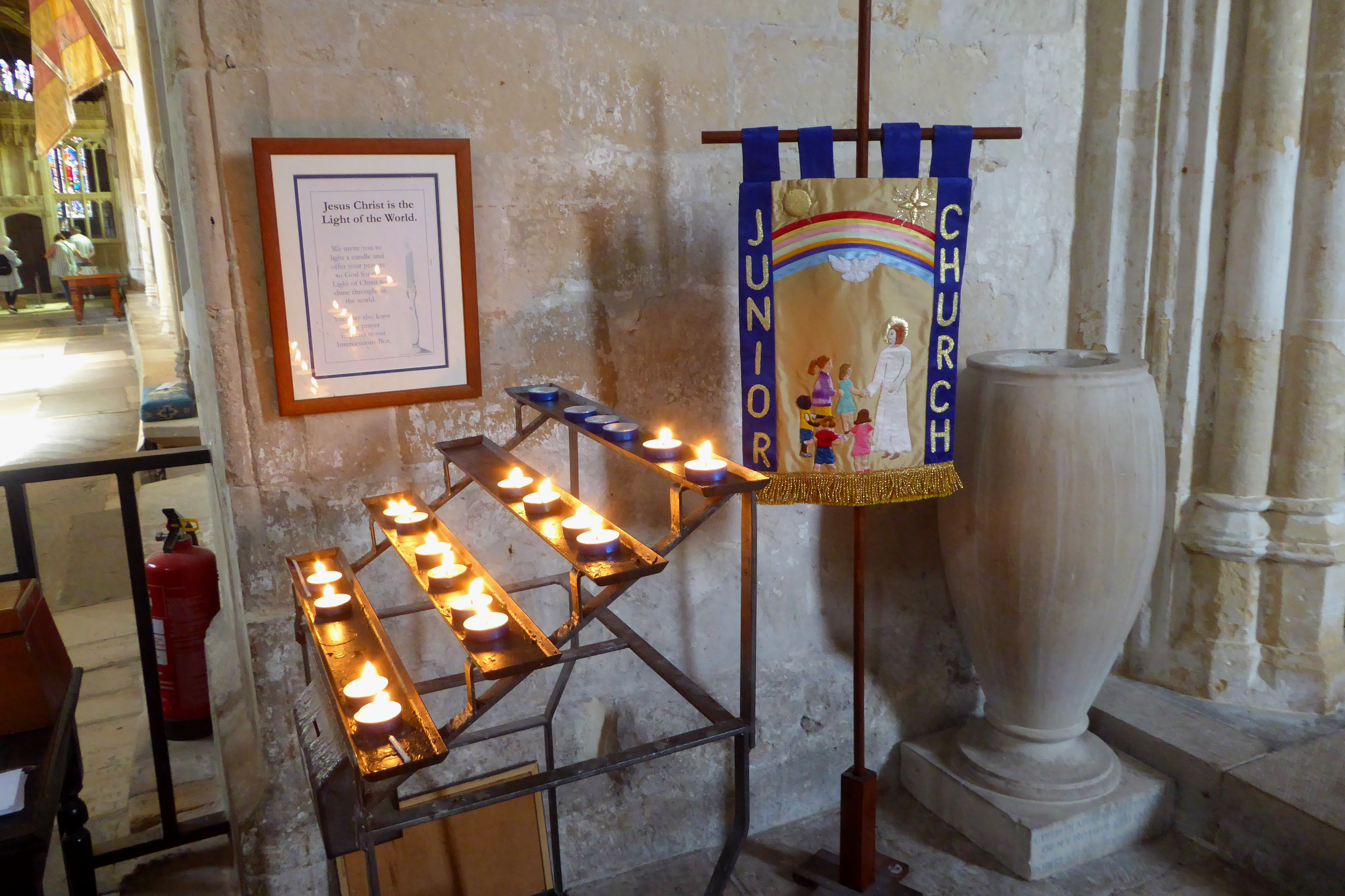 Prayer candles and the Junior Church group banner at Christchurch Priory in Dorset.